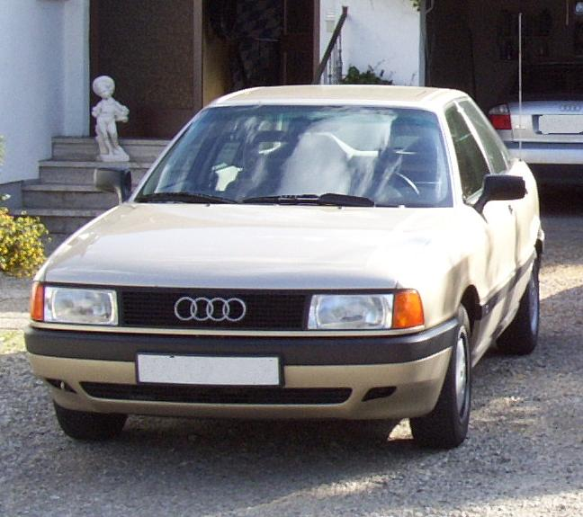 own work